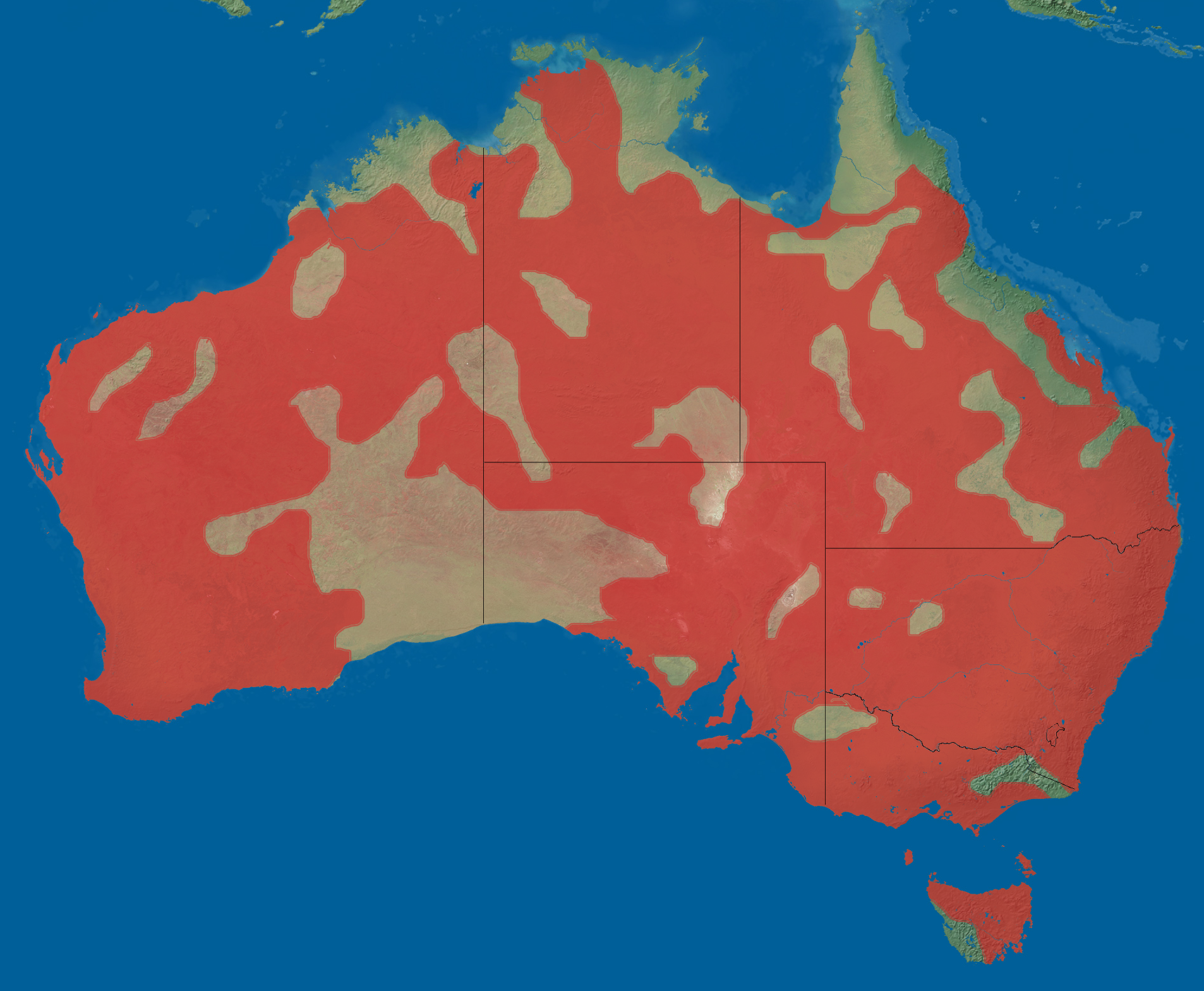 The Distribution of the Hoary-headed Grebe